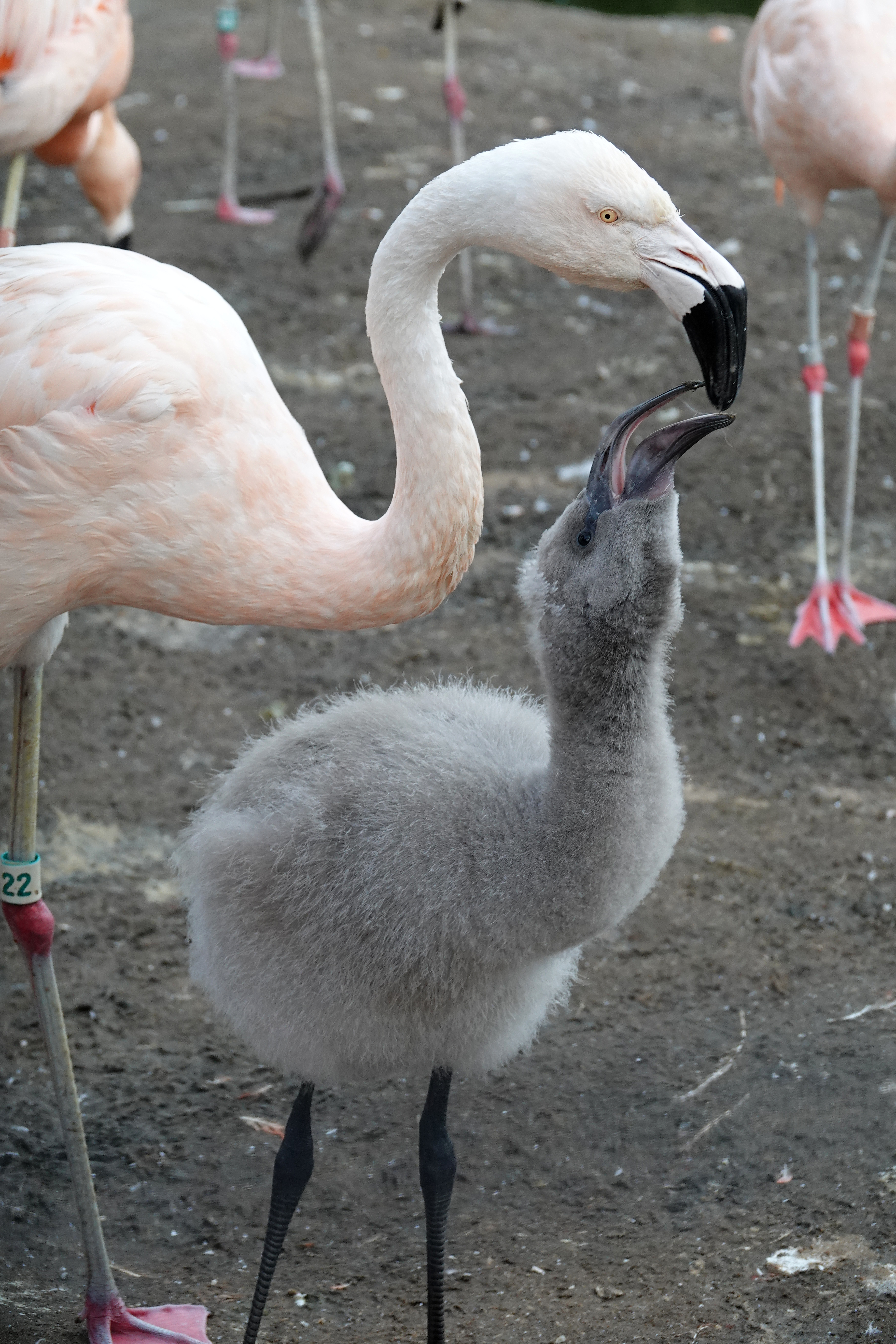 Chilean Flamingo (Phoenicopterus chilensis) feeding its young at the San Francisco Zoo, USA.